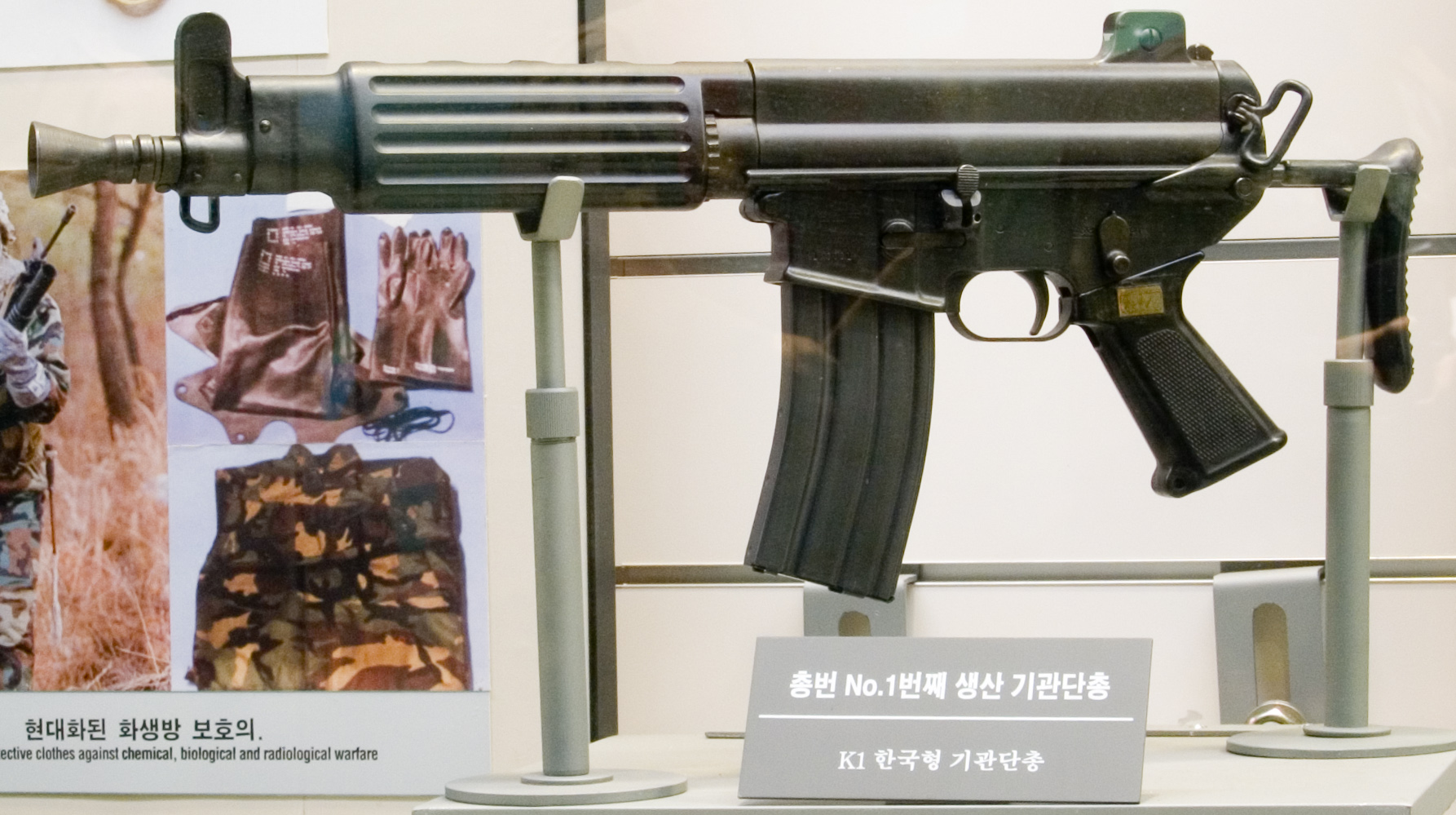 South Korean K1 carbine No.1